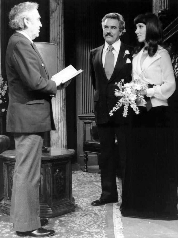 Photo from the daytime drama Another World of the marriage of characters Mac Cory and Rachel. Pictured from left: Ralph Camargo (justice of the peace), Douglass Watson (Mackenzie Cory), Rachel Frame (Victoria Wyndham). Interesting information about the scene-actor Ralph Camargo is the real life father of Victoria Wyndham and this was the first time father and daughter performed together.